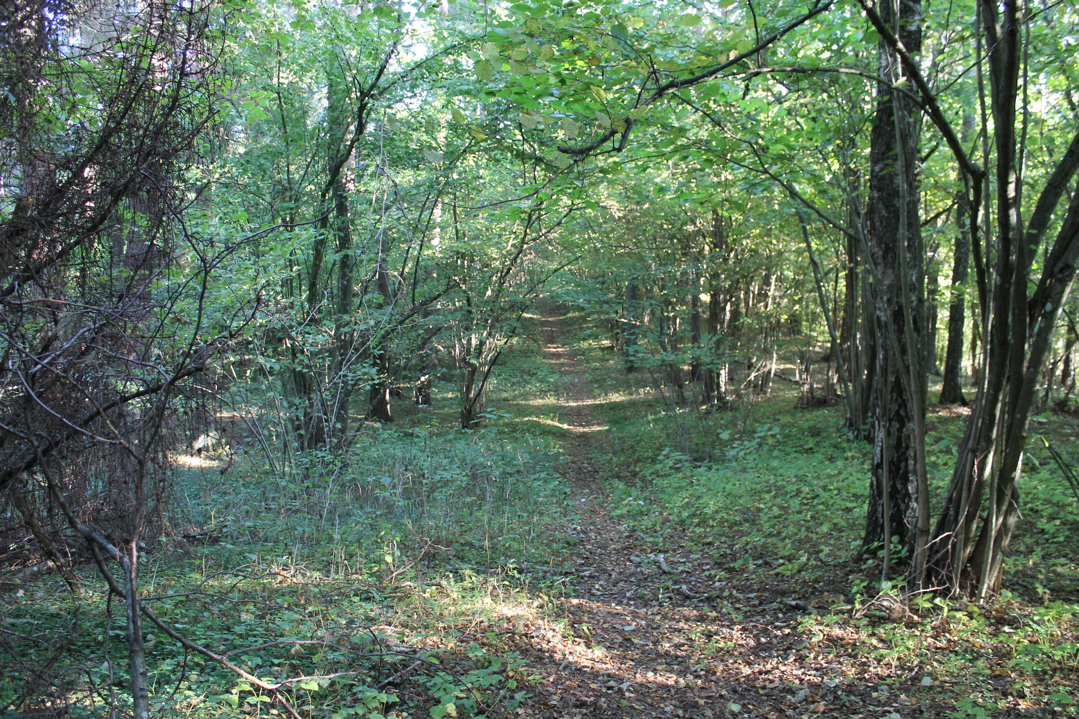 Joskaudai Hillfort, Kretinga district, Lithuania